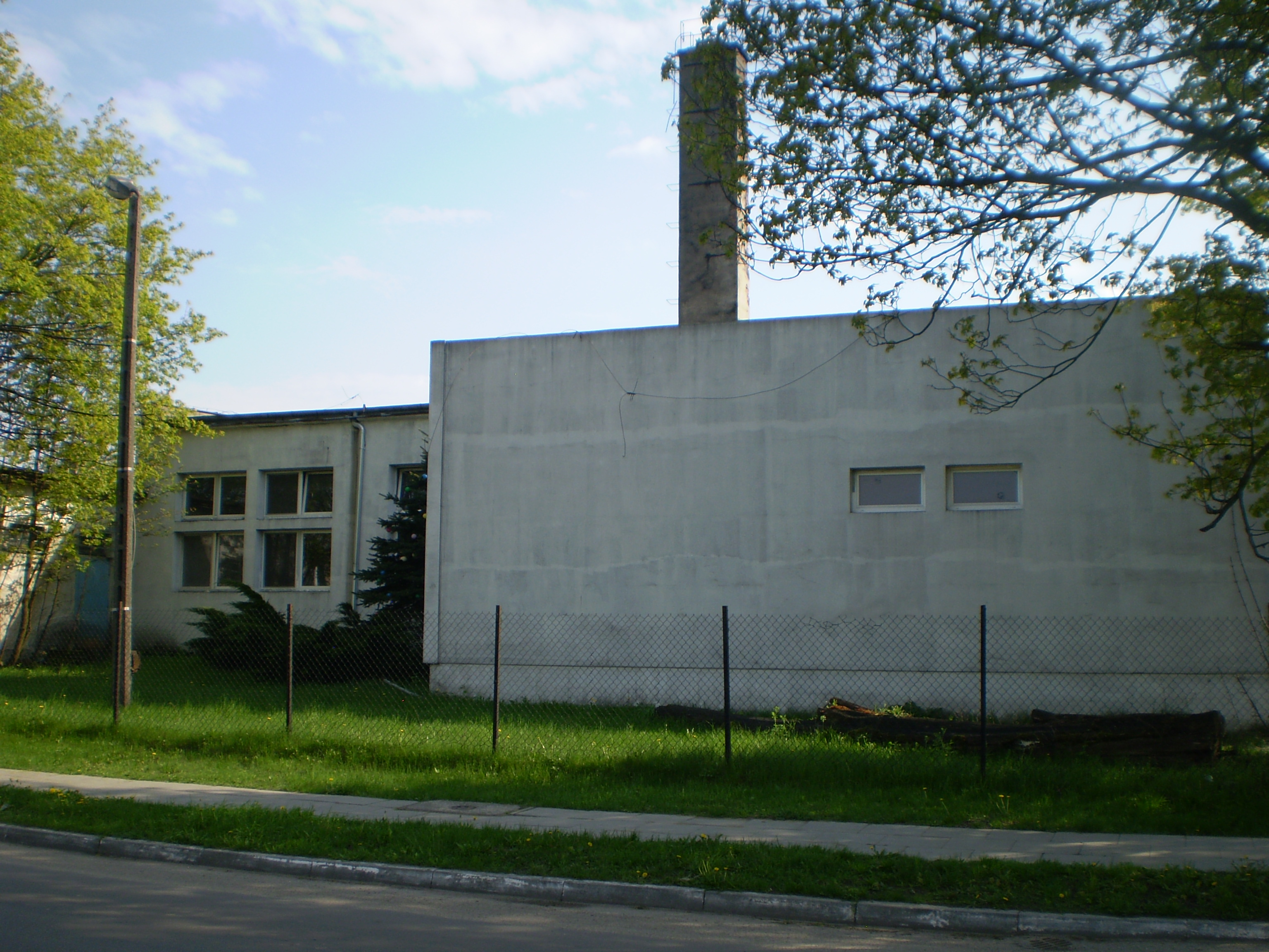 Zadzim